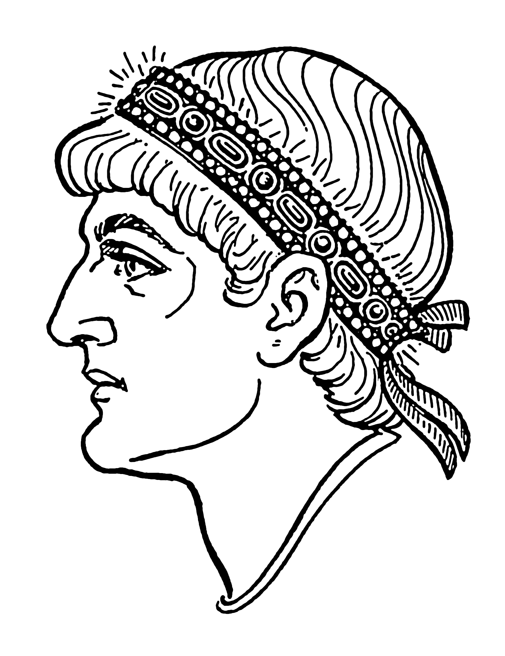 Line art drawing of a diadem.